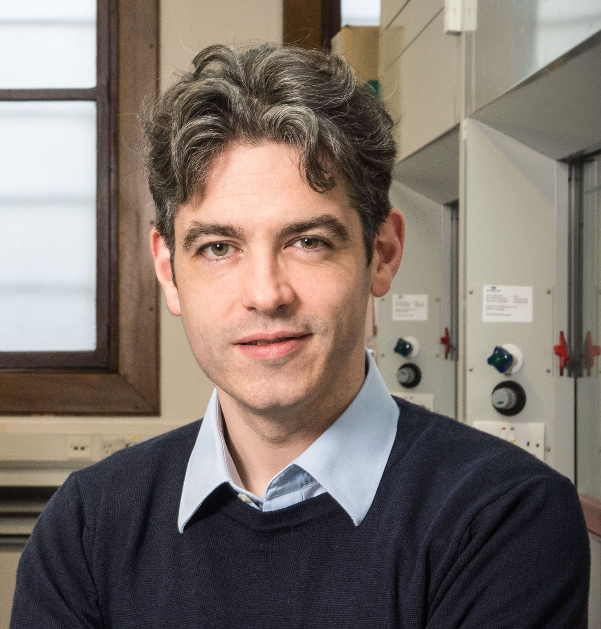 Dr. Leroy Cronin